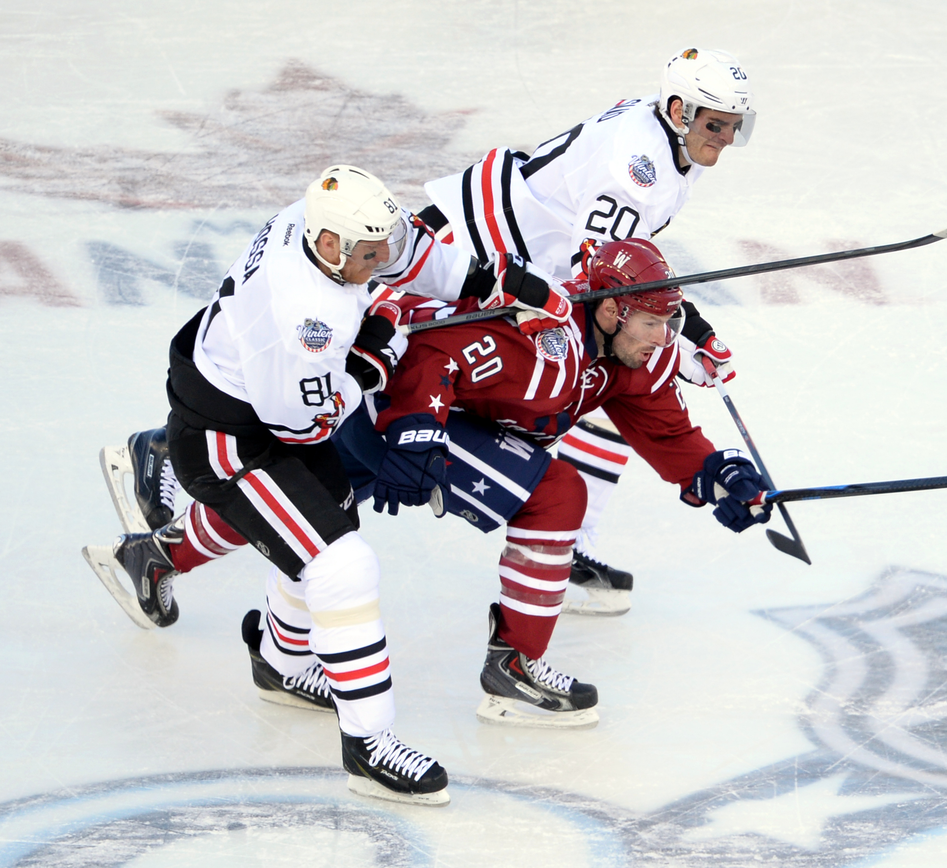 Washington’s Troy Brouwer, center, gets squeezed out of a puck chase by Chicago’s Marian Hossa, front, and Brandon Saad during the 2015 Winter Classic at Nationals Park in Washington D.C. Jan. 1, 2015. Brouwer scored the winning goal with 12.9 seconds left on the clock to beat the Chicago Blackhawks 3-2. (DoD News photo by EJ Hersom)